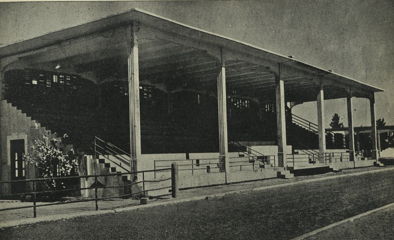 Municipal Sports Field, Beirut - 1947